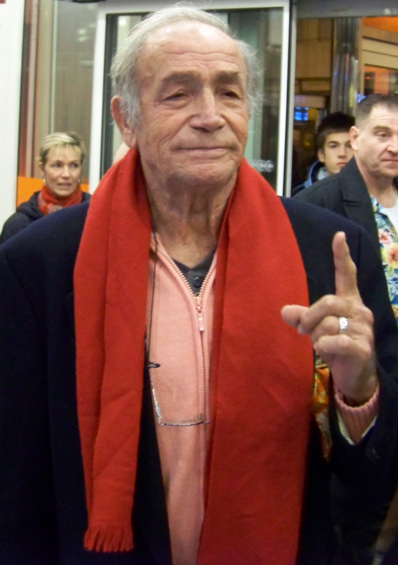 Venantino Venantini at the 22th Cinematic Encounters of Cannes.